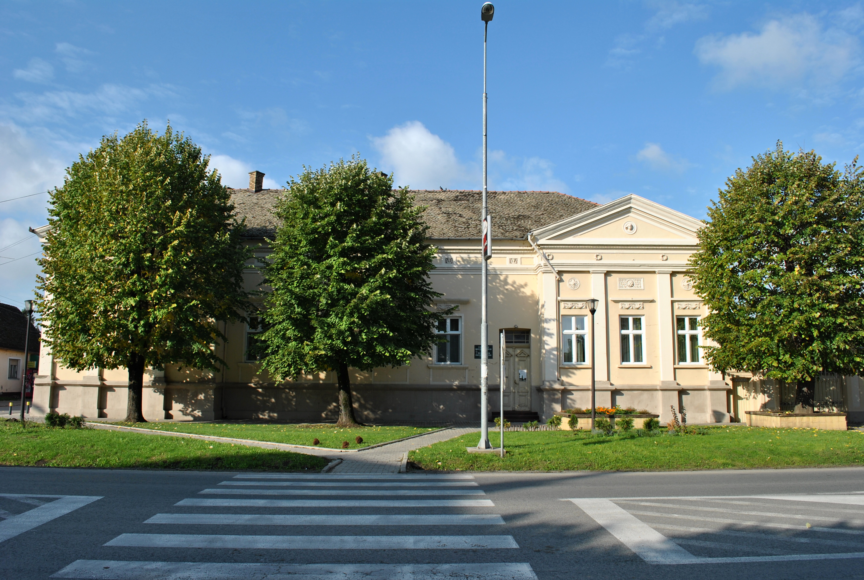 Stara Pazova, Serbia - Protestant Parochial Office, 2015